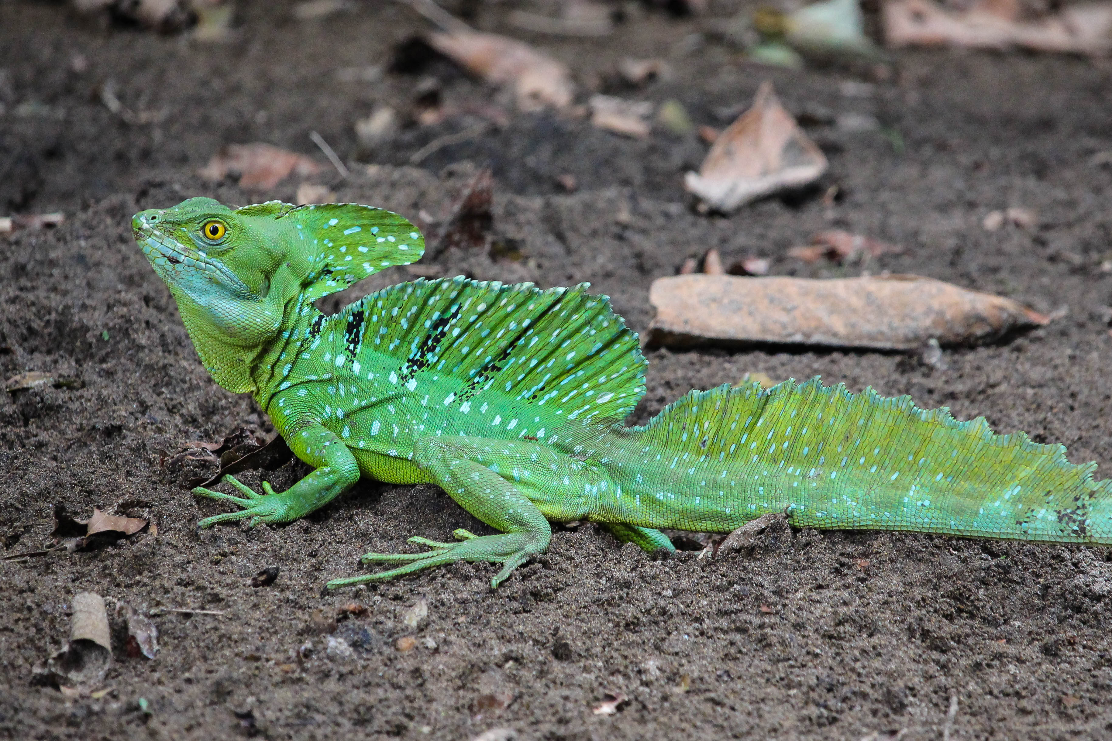 The green basilisk, (Basiliscus plumifrons). Alajuela Province, Costa Rica.